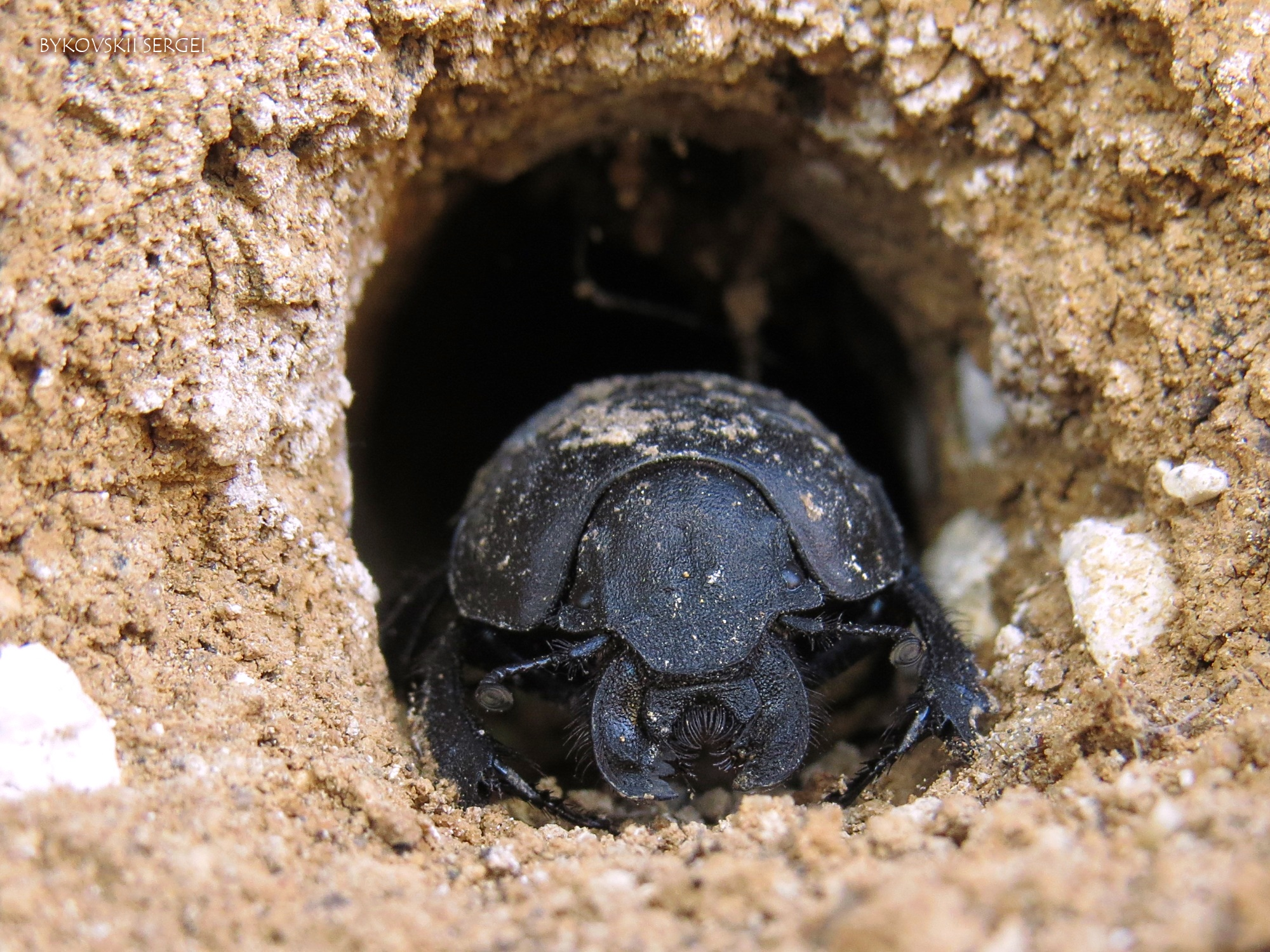 Male Lethrus apterus closed the entrance to its burrow purse head, to prevent the invasion of foreign species inside, while the female burrows deep in preparing food for the larvae, which will appear later. It should be noted that this beetle is very strong and hardworking, because the soil in which the excavated hole is so strong that it is difficult to pick, even the knife.